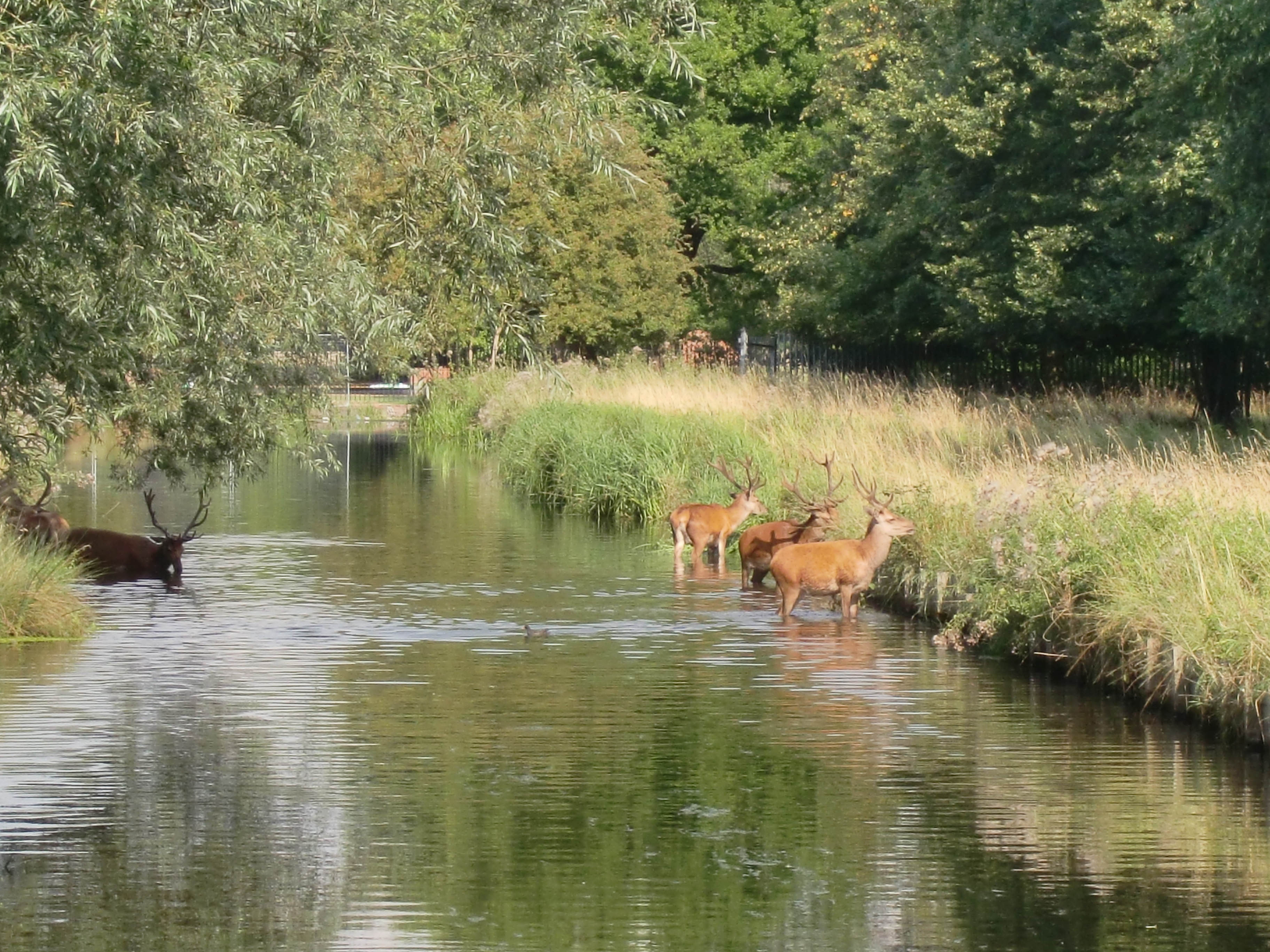 Red Deer stags in Longford River, Bushy Park, Hampton Hill